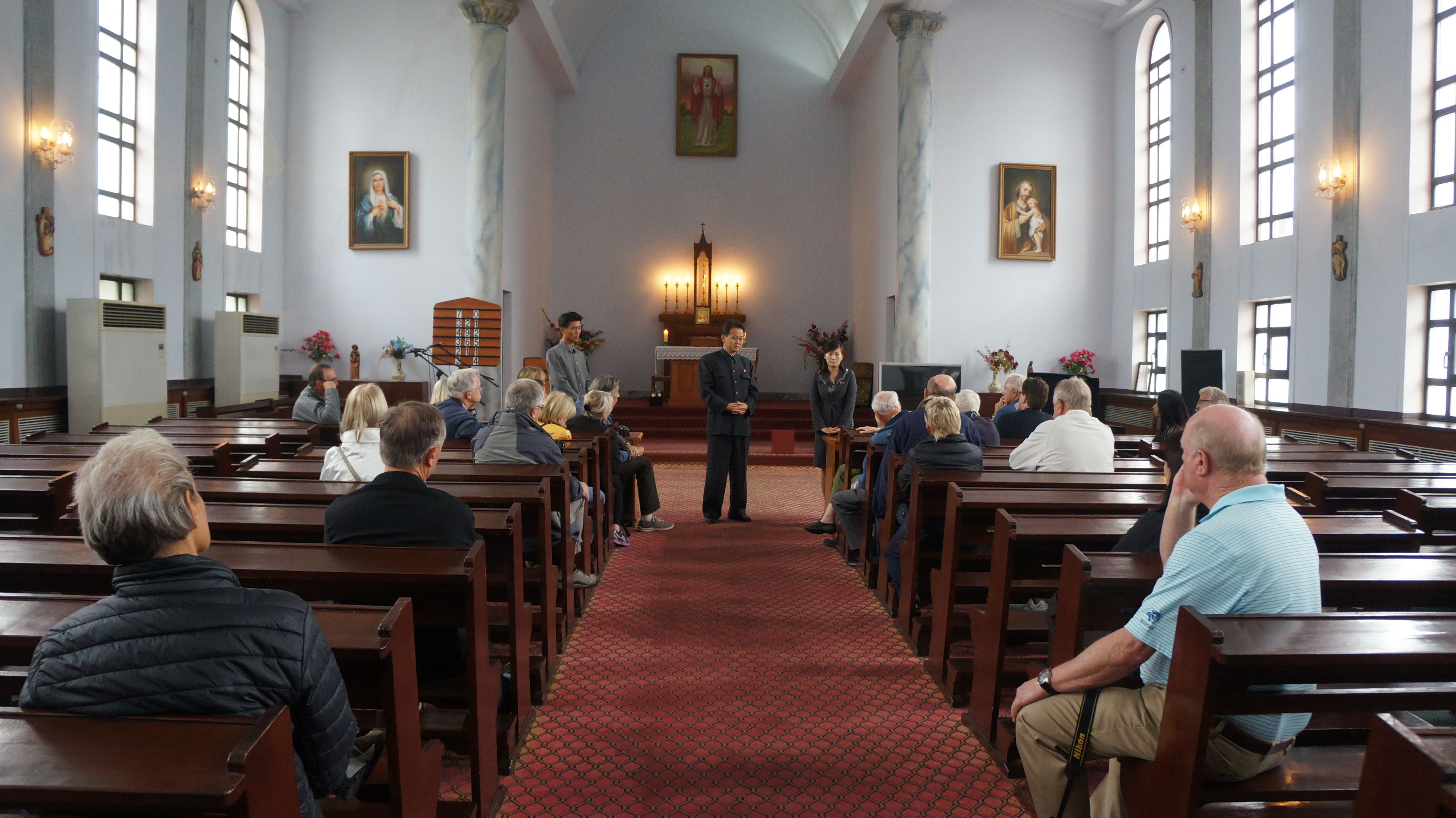 North Korea DPRK